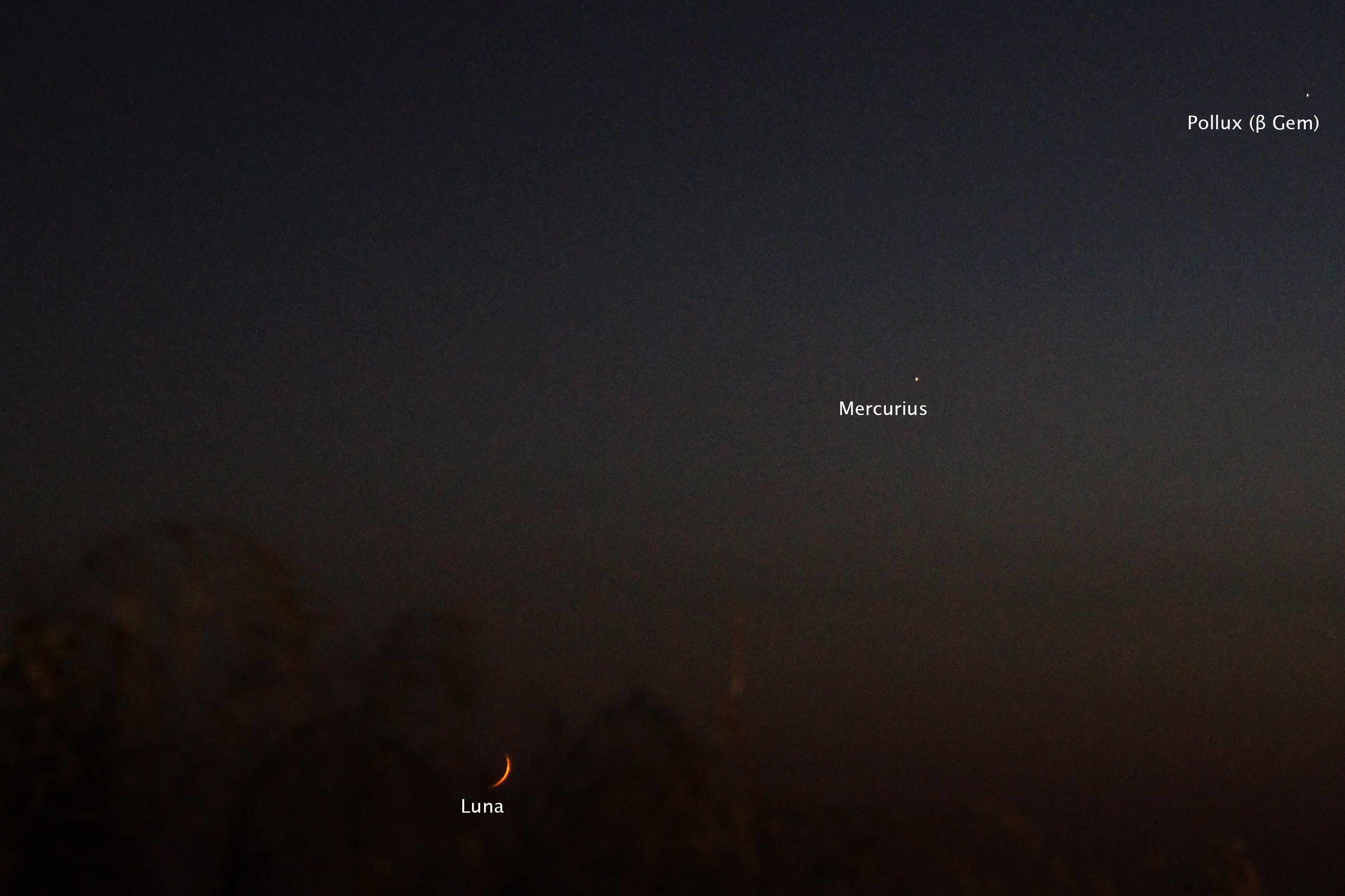 21 June 2012 Moon-Mercury conjuction. Pollux (β Gem) is also visible.